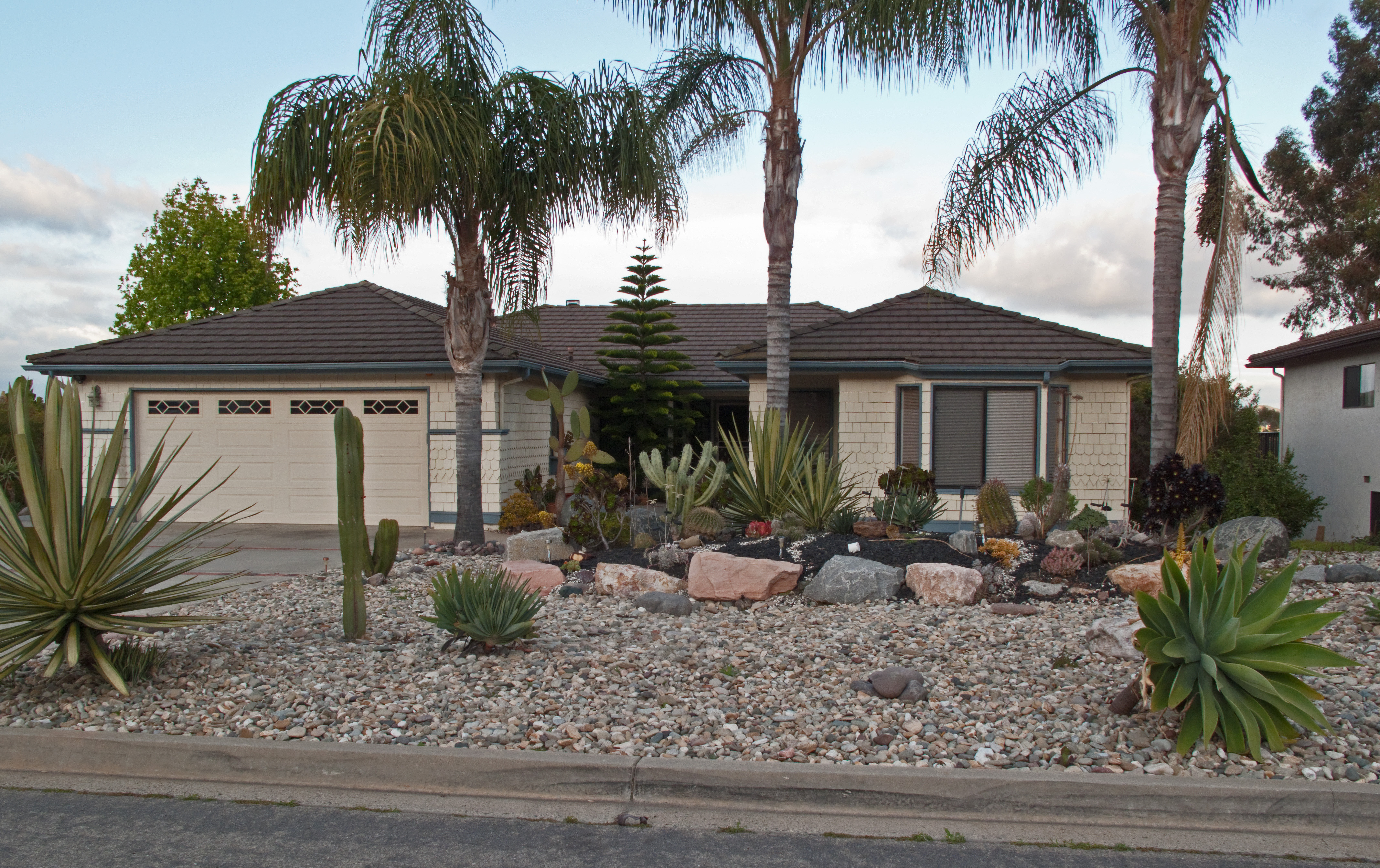 Landscaping in Hidden Meadows, California. Location is approximate.